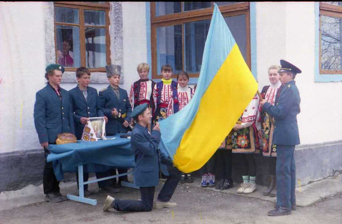 Ритуал посвяти в джури. Державний Прапор України.